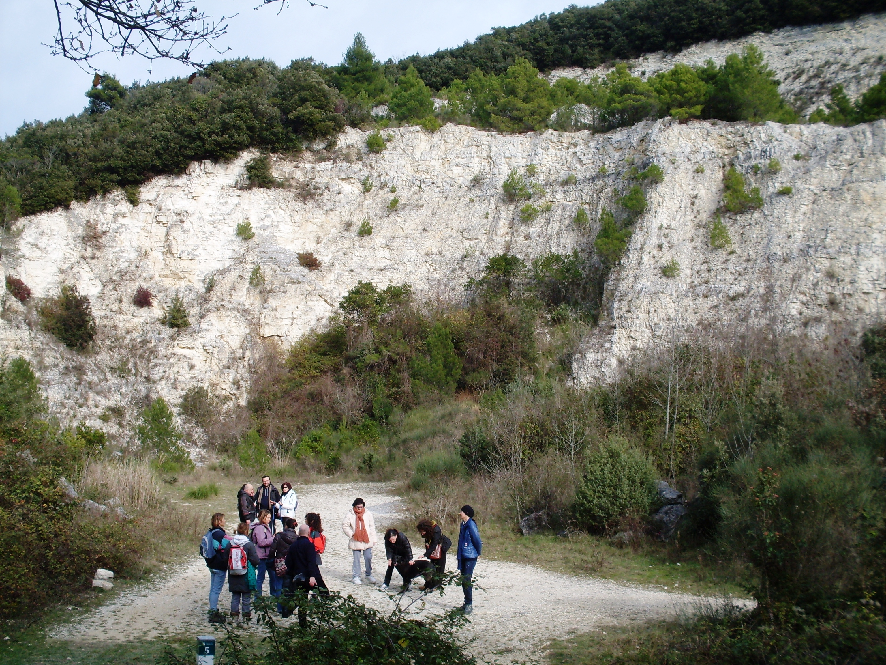 Italy Ancona Mount Conero - turists in the old quarry